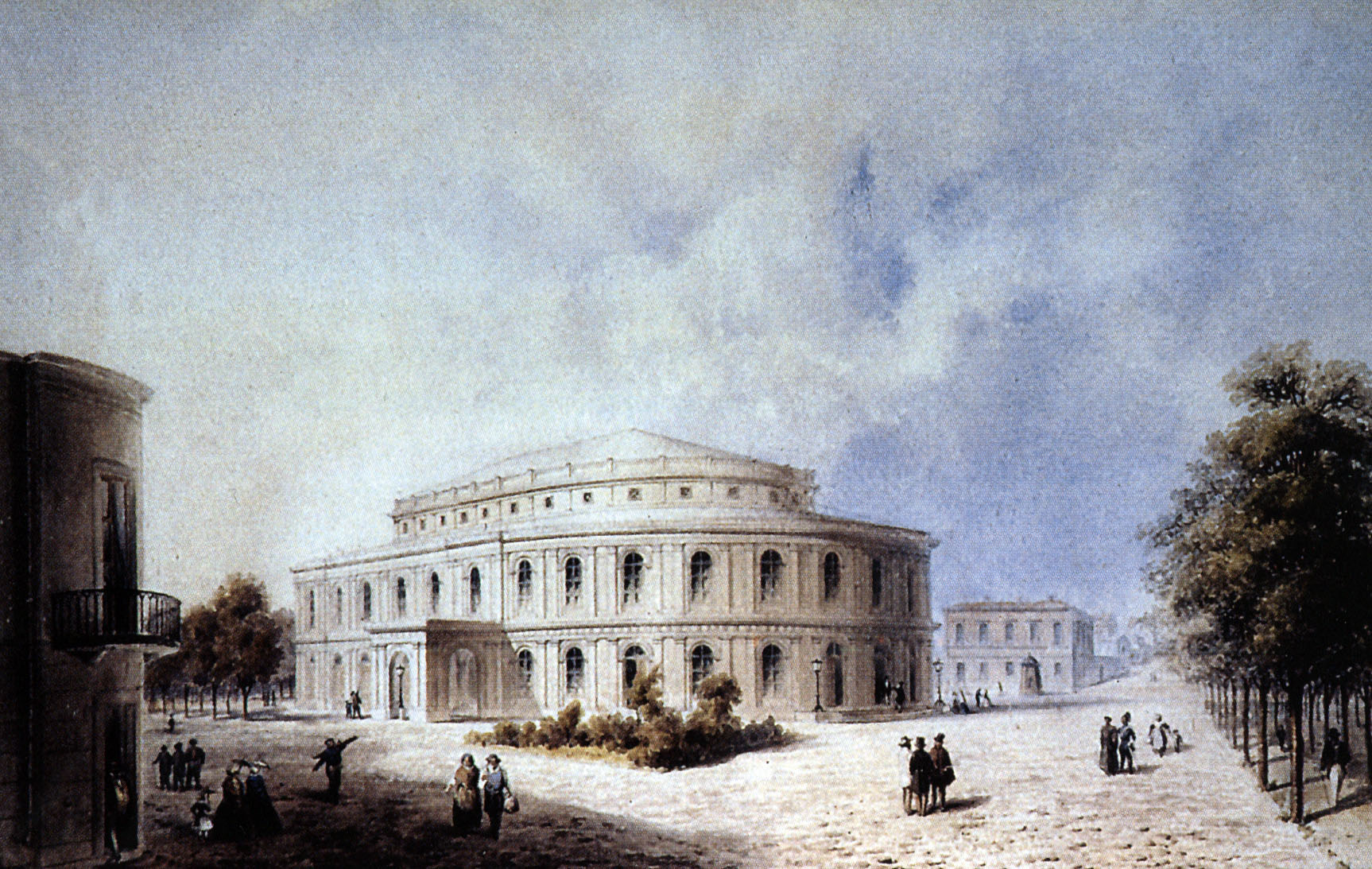 Chiewitz, Drawing of the Nya Teatern (present-day "Svenka Teatern"), Helsingfors, 1853